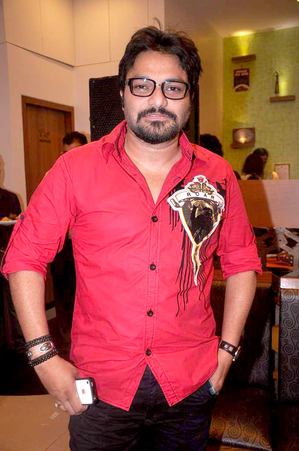 Babul Supriyo at 91.1 FM Radio City Anniversary bash